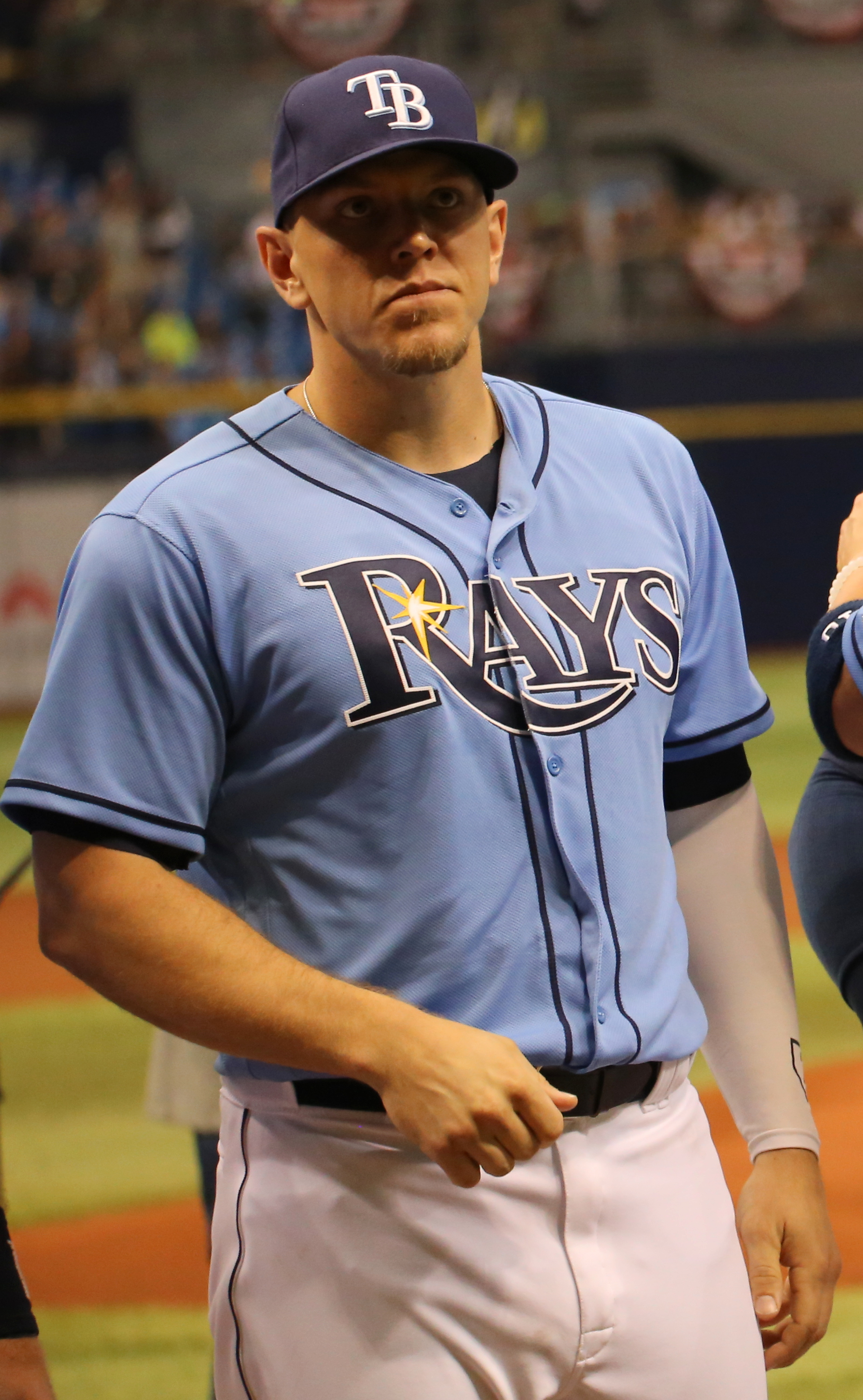 Logan Morrison